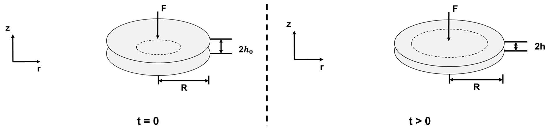 This diagram provides a visual aid, with variables, of squeeze flow using circular plates.